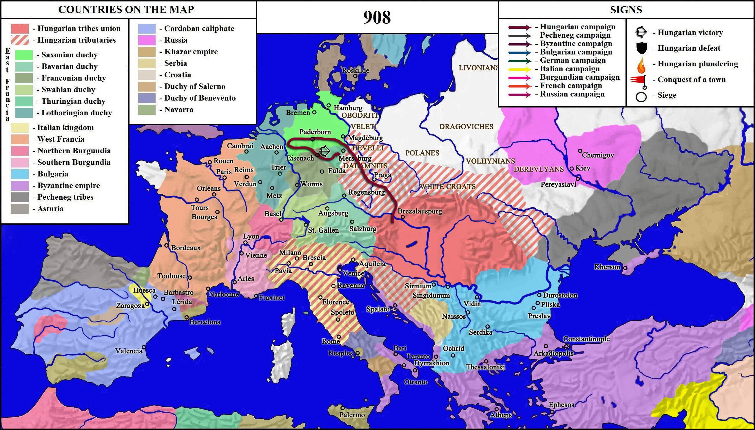 After the victory in the Battle of Pressburg from 907, the Hungarian campaigns started to reach more and more European countries. In 908 the Hungarians attacked the Duchy of Saxony and Thüringia, and defeated the Thüringians at Eisenach.